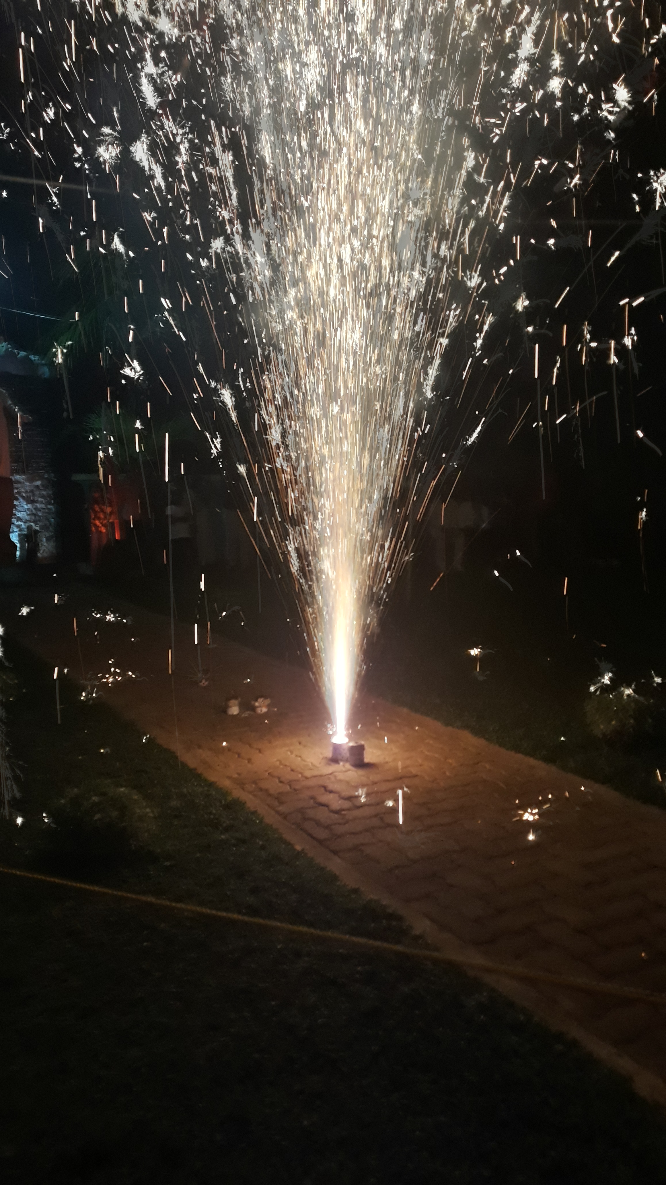 Fireworks 25.1.2020